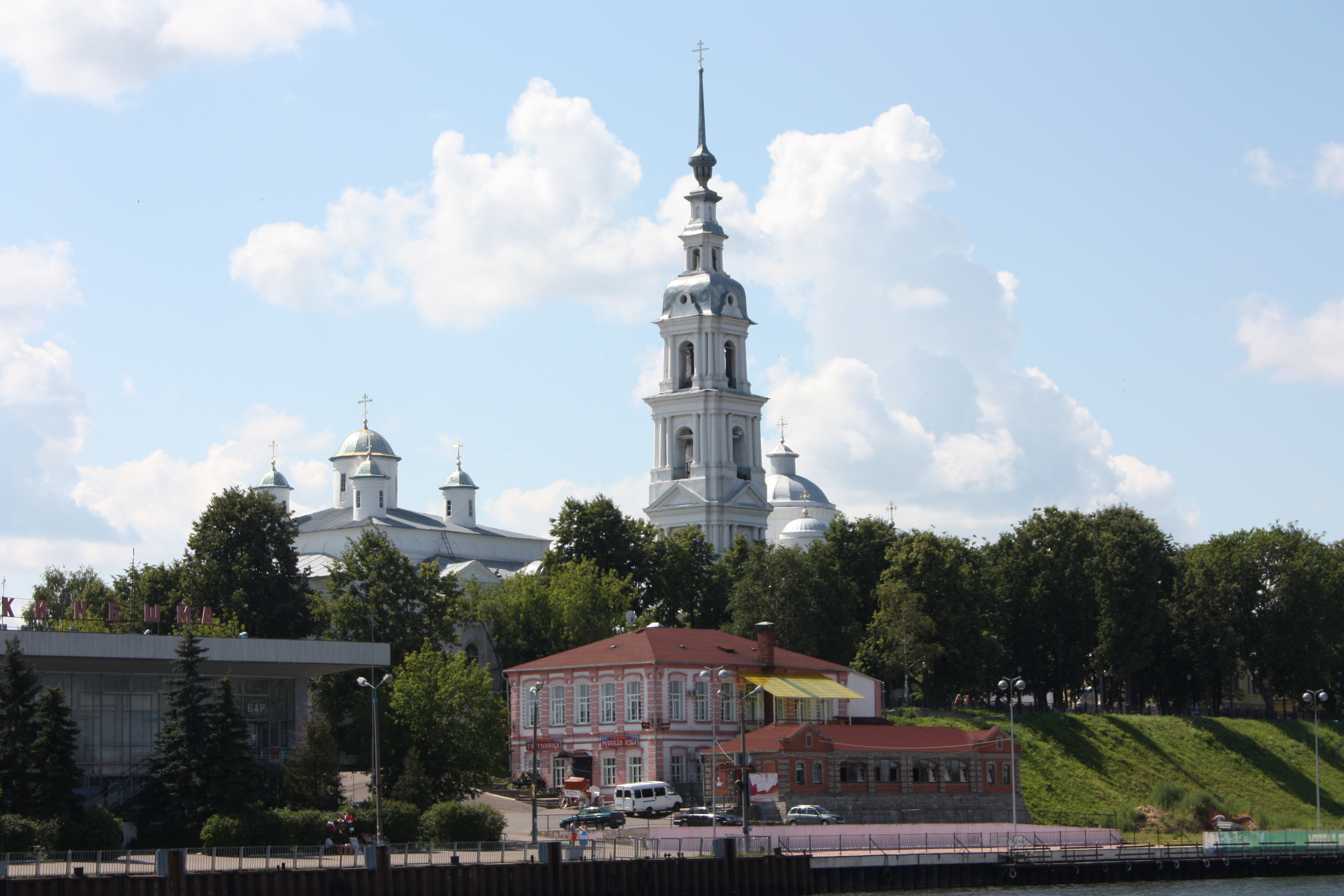 Orthodox cathedral of the Dormition in Kineshma. View from Volga river